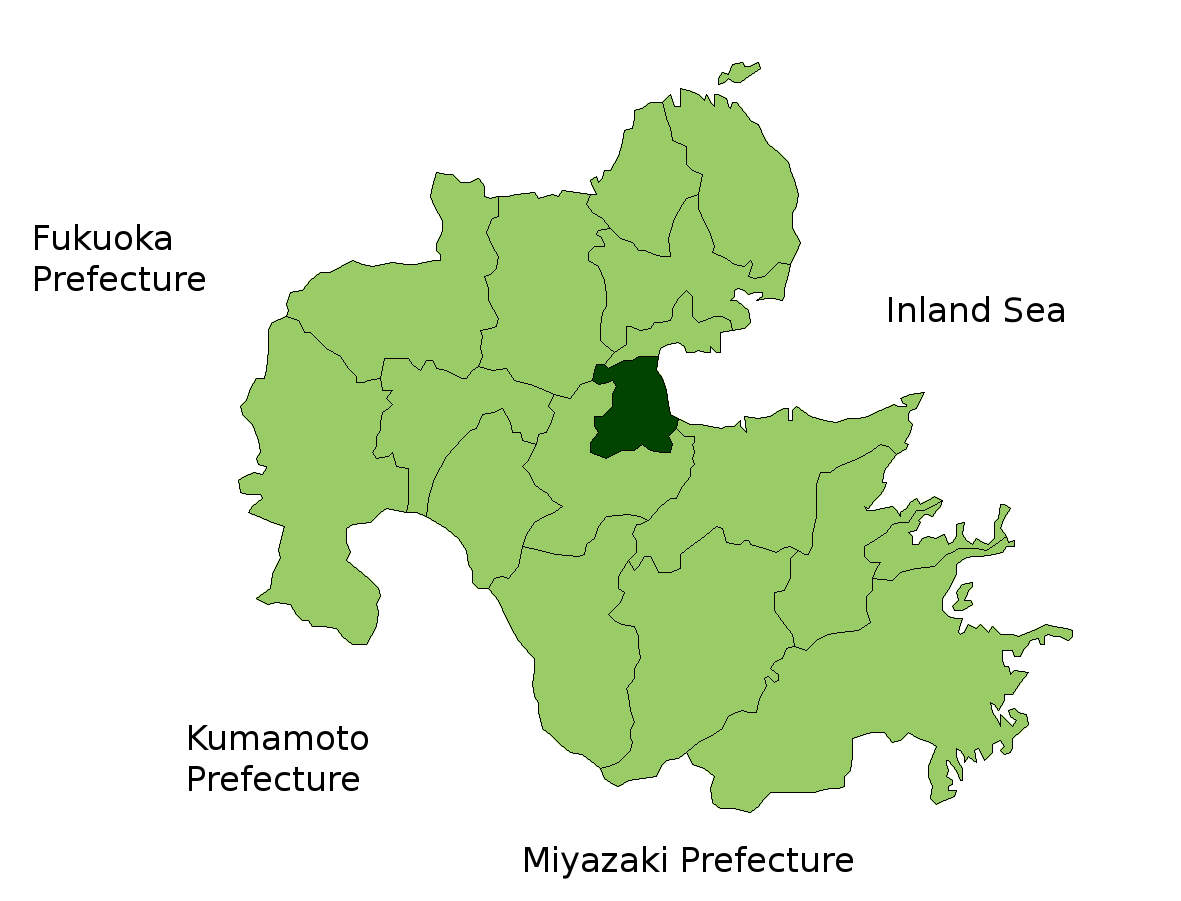 Location Map of Beppu in Oita Prefecture, Japan